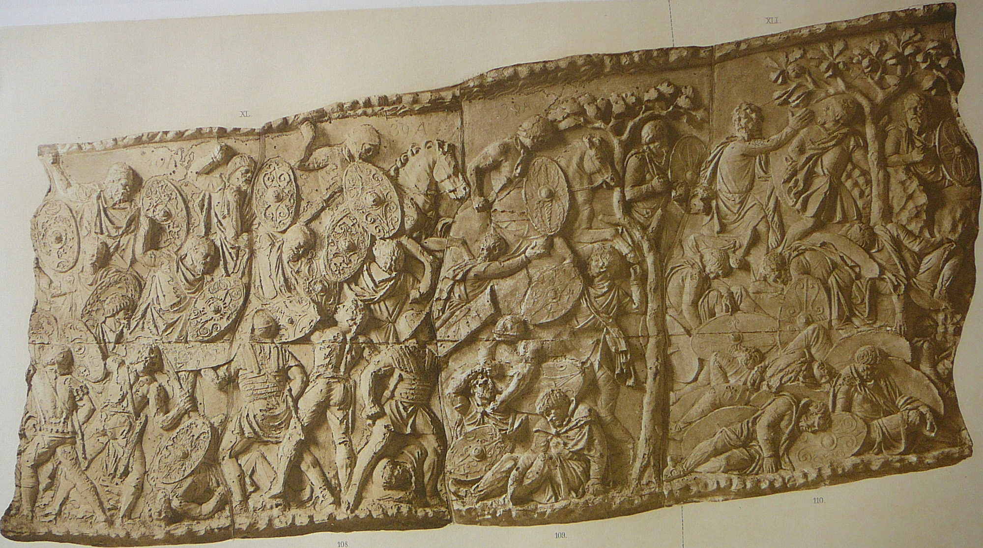 Major battle against the Dacians (scene XL); flight of the Dacians into the mountains (scene XLI)